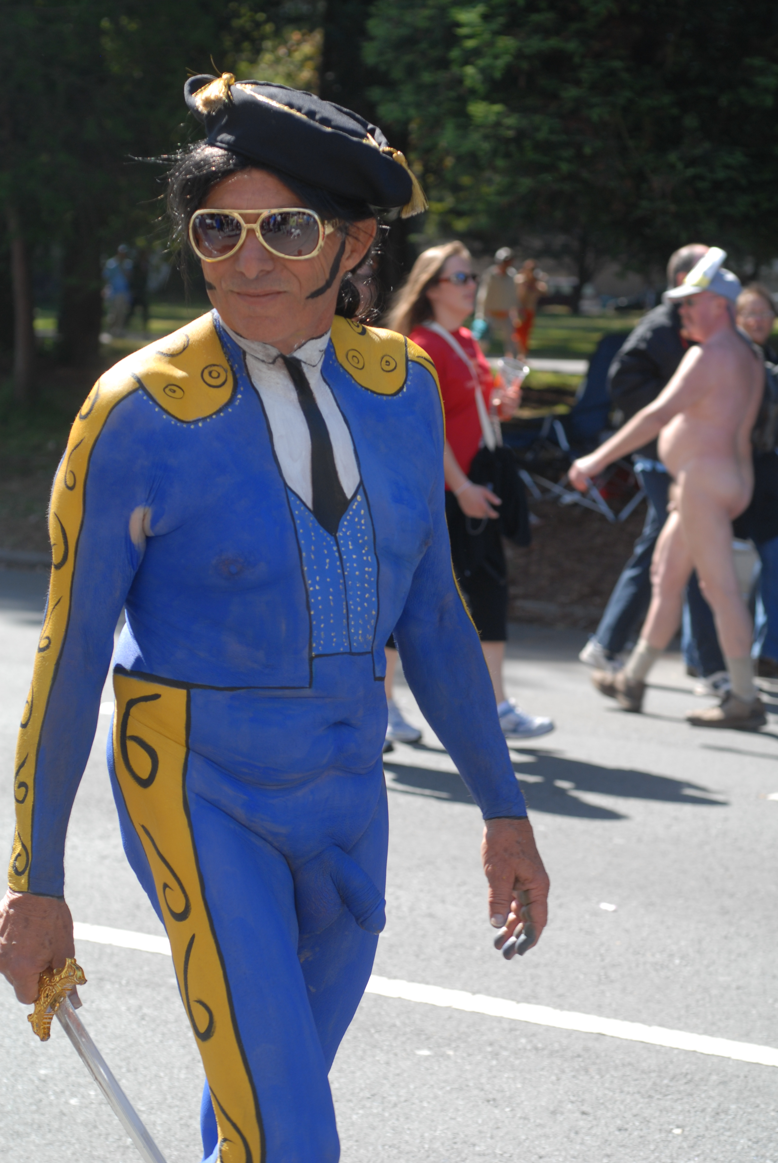 Bay to Breakers 2008, San Francisco. Body painted Matador costume.